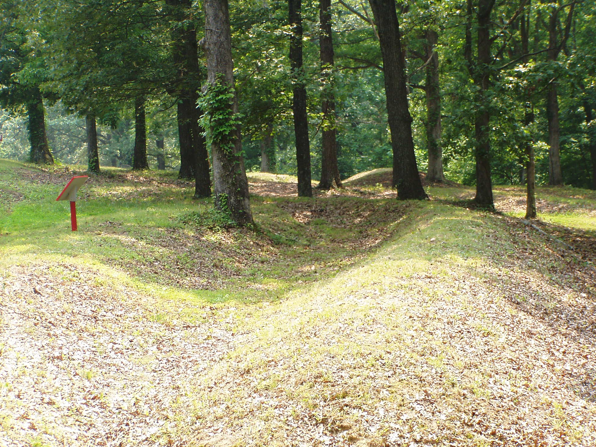 Outer Works at Ft Donelson Nat'l Battlefield. Site #6